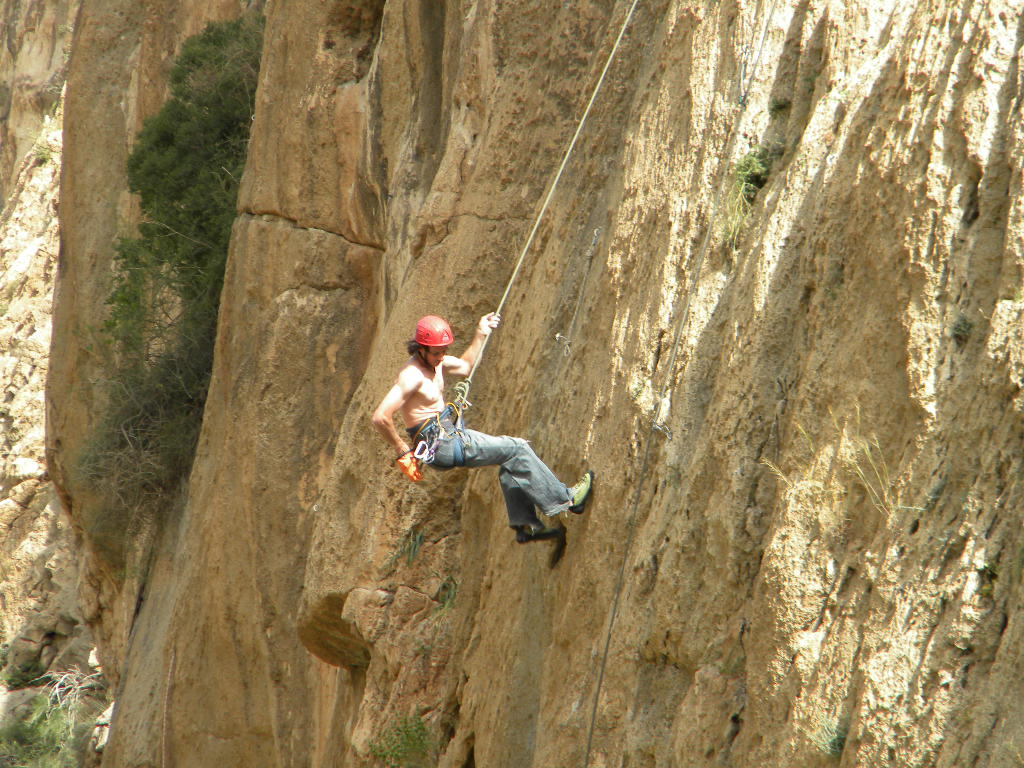 Sports in Palestine